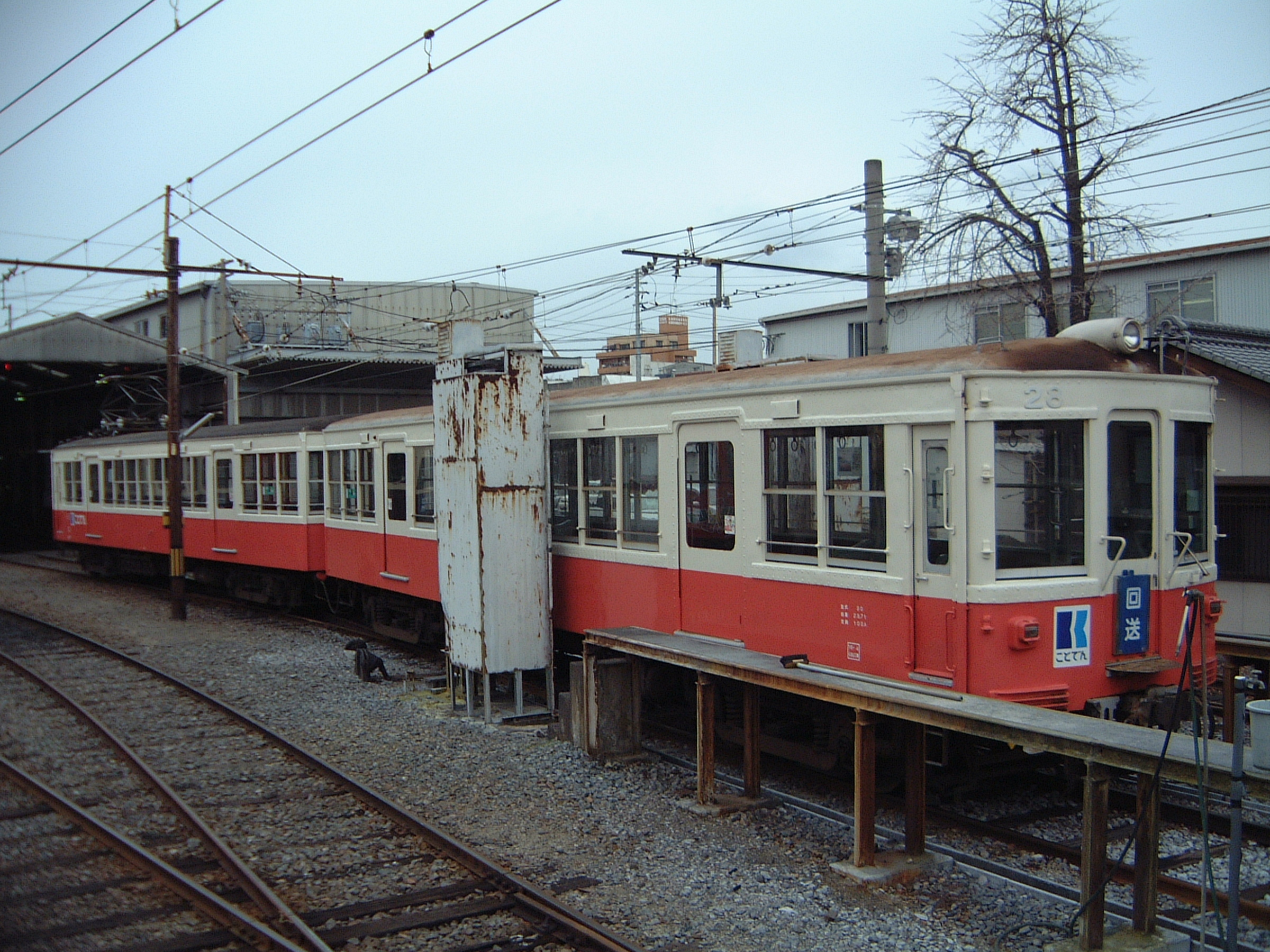 author:fwng3431 Date:04/Jan/2006 Type30 Train(Car No.27 and 28) Takamatsu-Kotohira Electric Railway Co. Ltd.(Japan)